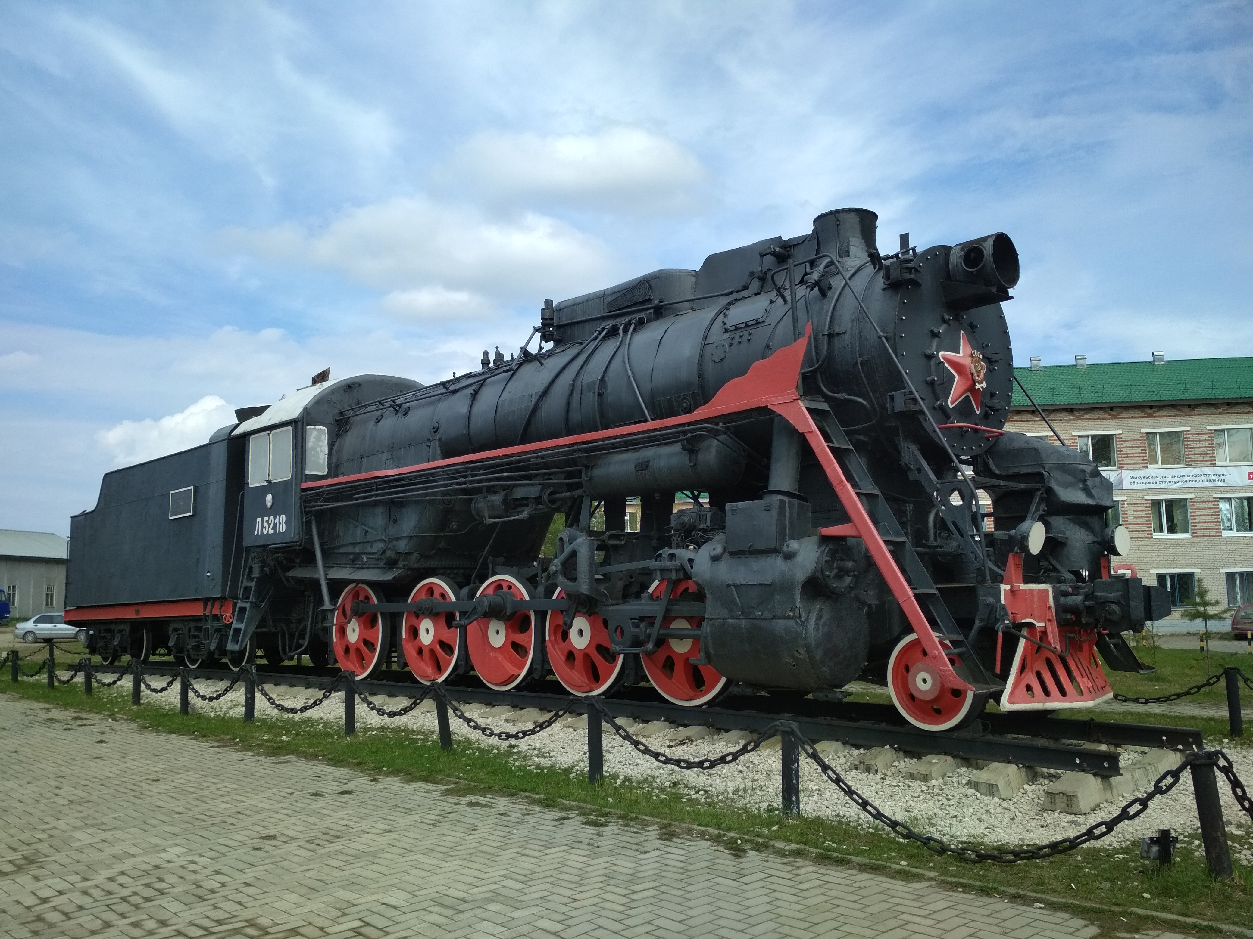 Locomotive L-5218 at Mikun station, Komi Republic.